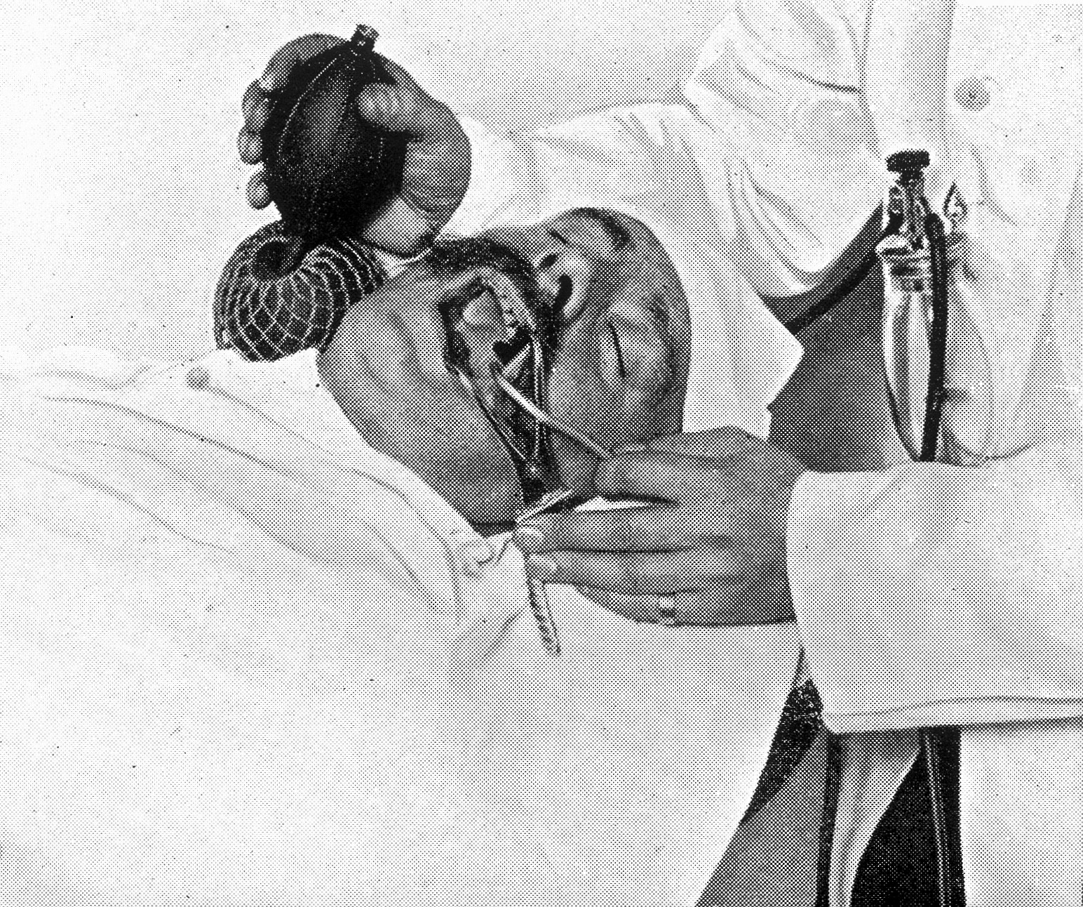 Chroloform anaesthesia maintained by a Junker's Tube. General Collections Keywords: Anaesthesia; Dentistry